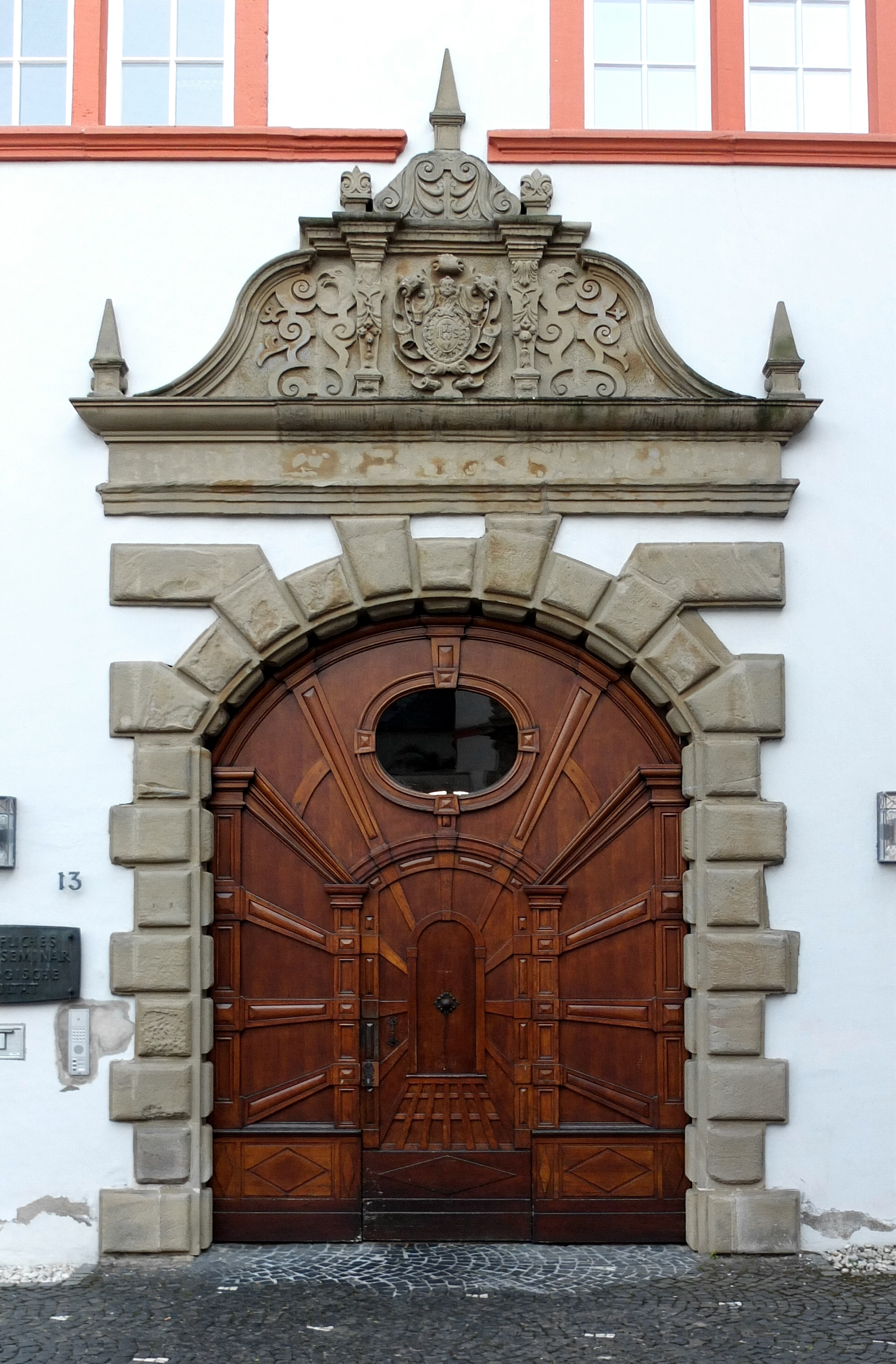 Portal of "Priesterseminar Trier", Germany